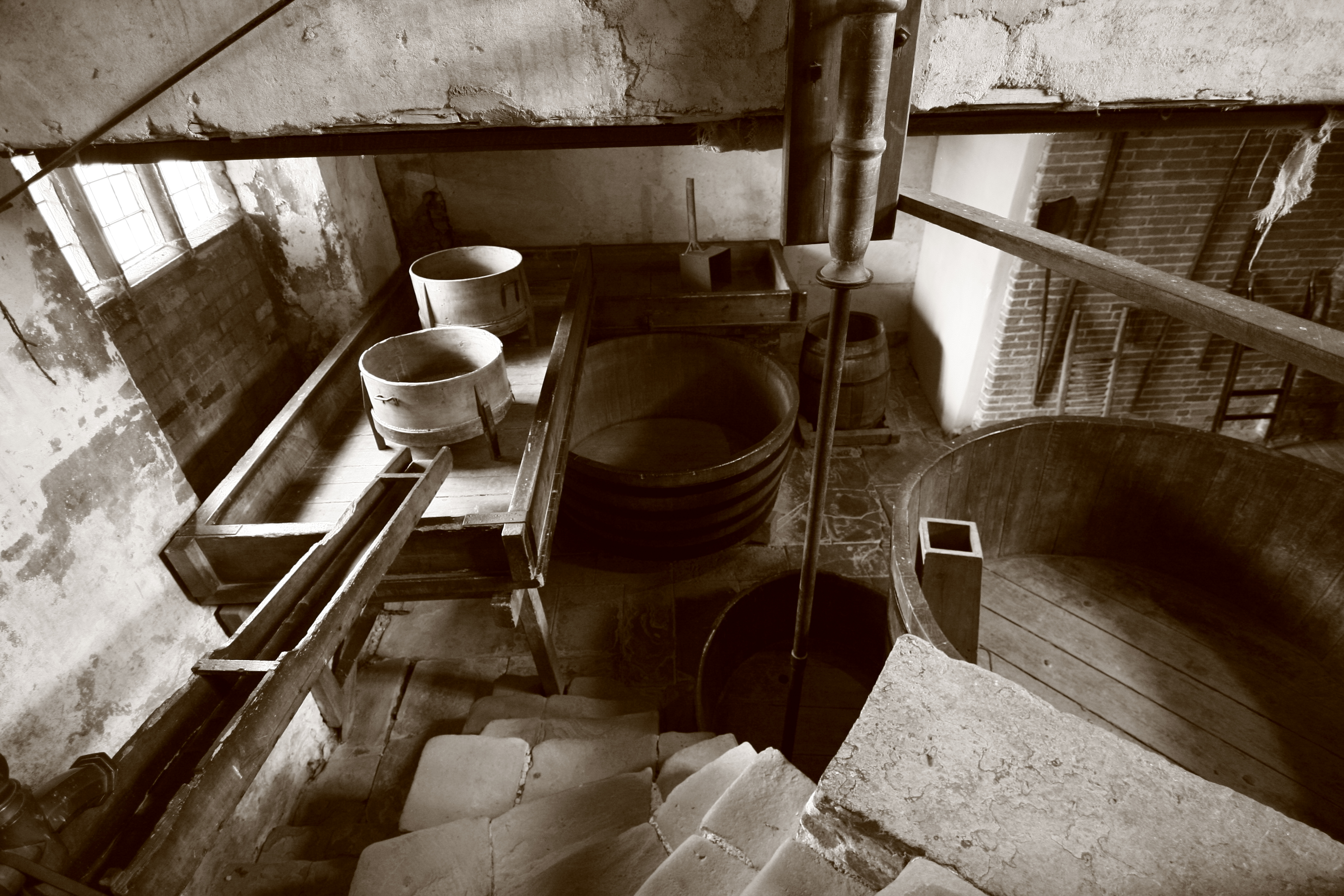 The brewery at Charlecote Park, Warwick